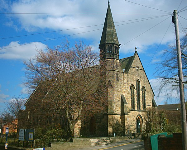 St Paul's parish church, Norton Lees Lane, Norton Lees, Sheffield, South Yorkshire, seen from the west